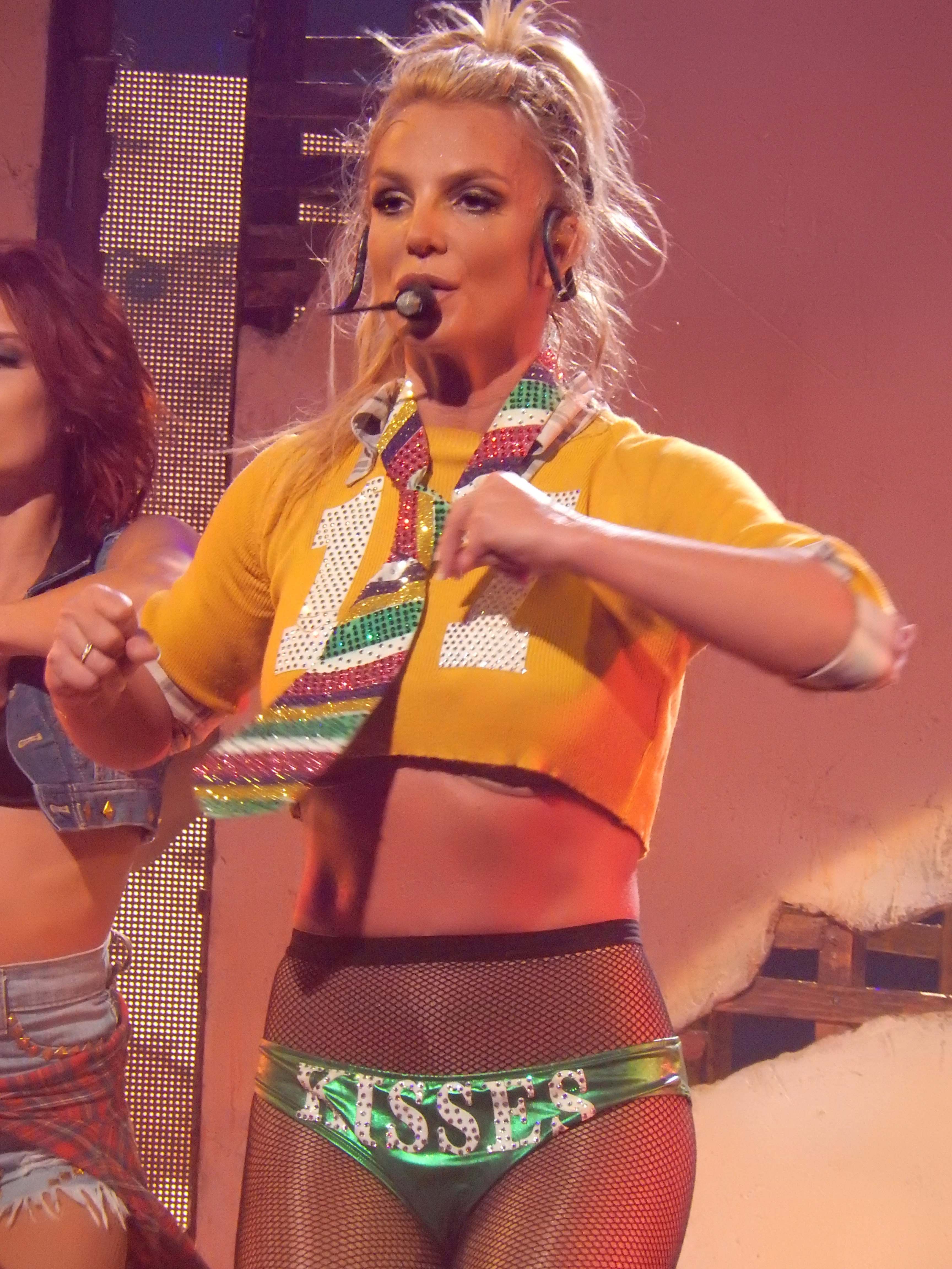 Britney Spears, Roundhouse, London (Apple Music Festival 2016)